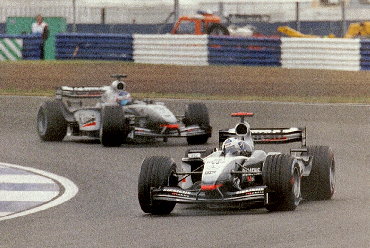 David Coulthard, driving his West McLaren Mercedes, being followed by the other West McLaren Mercedes of Kimi Räikkönen at the 2003 British Grand Prix.